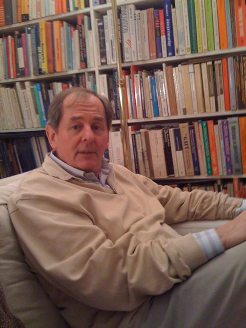 Thierry Wolton's portrait